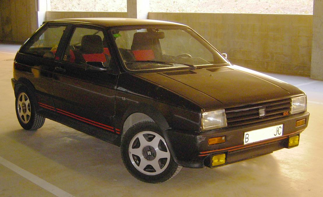 author:joonga